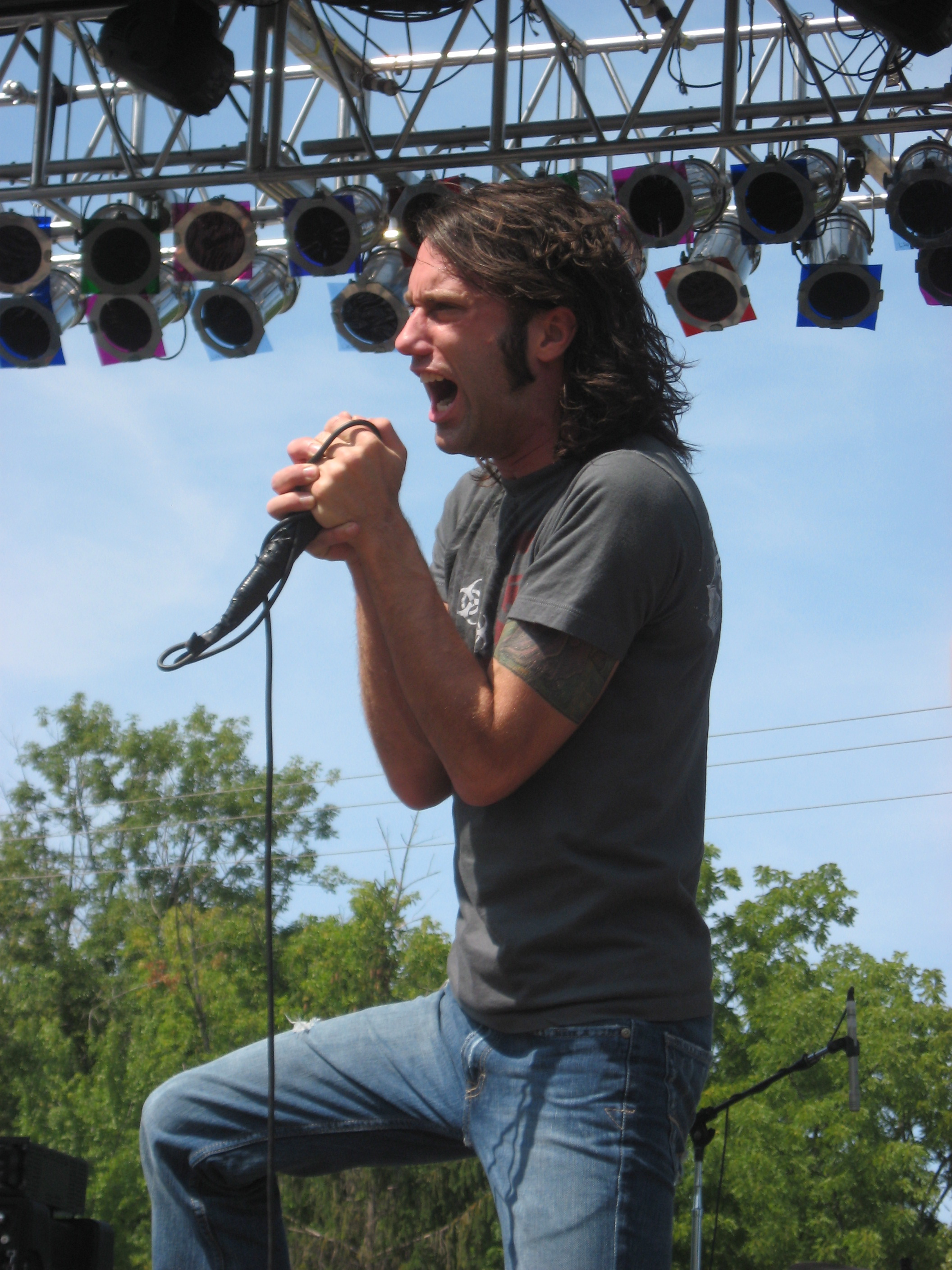 Kevin Young, belting it at Purple Door 2007.